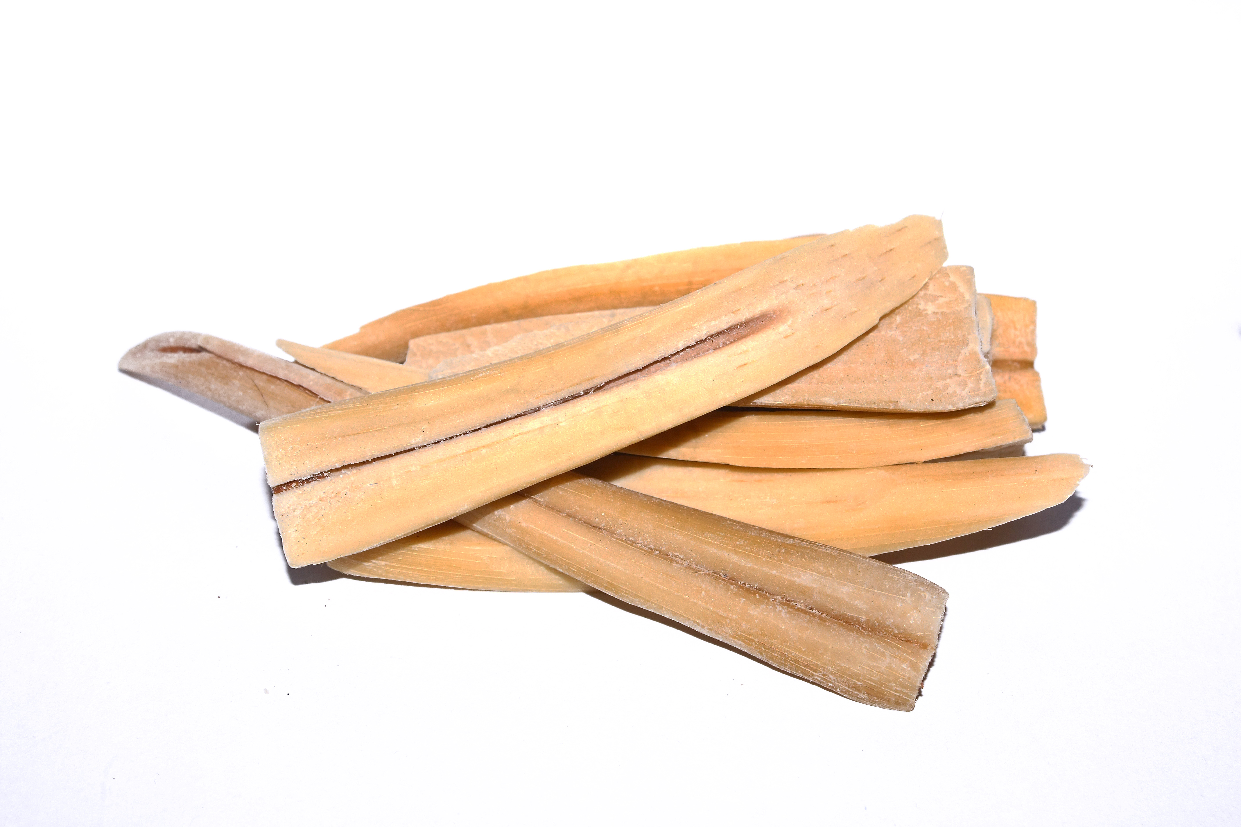 Boiled and dried palmyra sprout or tuber or root. Known in Tamil Nadu and Sri Lanka as Odiyal or Pulukodiyal